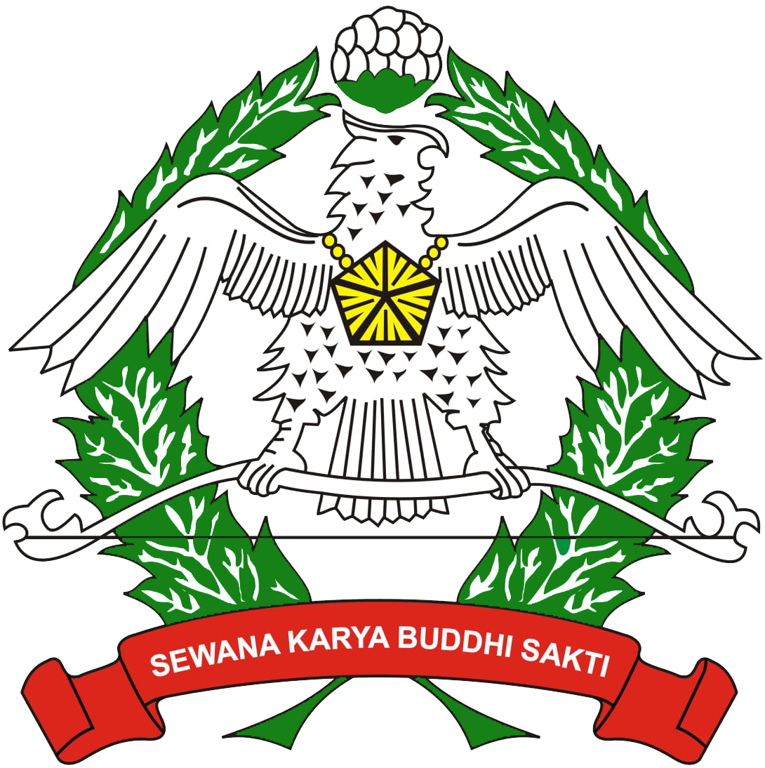 Logo KOHARMATAU Indonesian Air Force